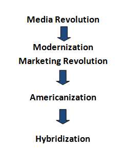 The picture shows the developmemt of theoretical approaches in election campaigning communication research.